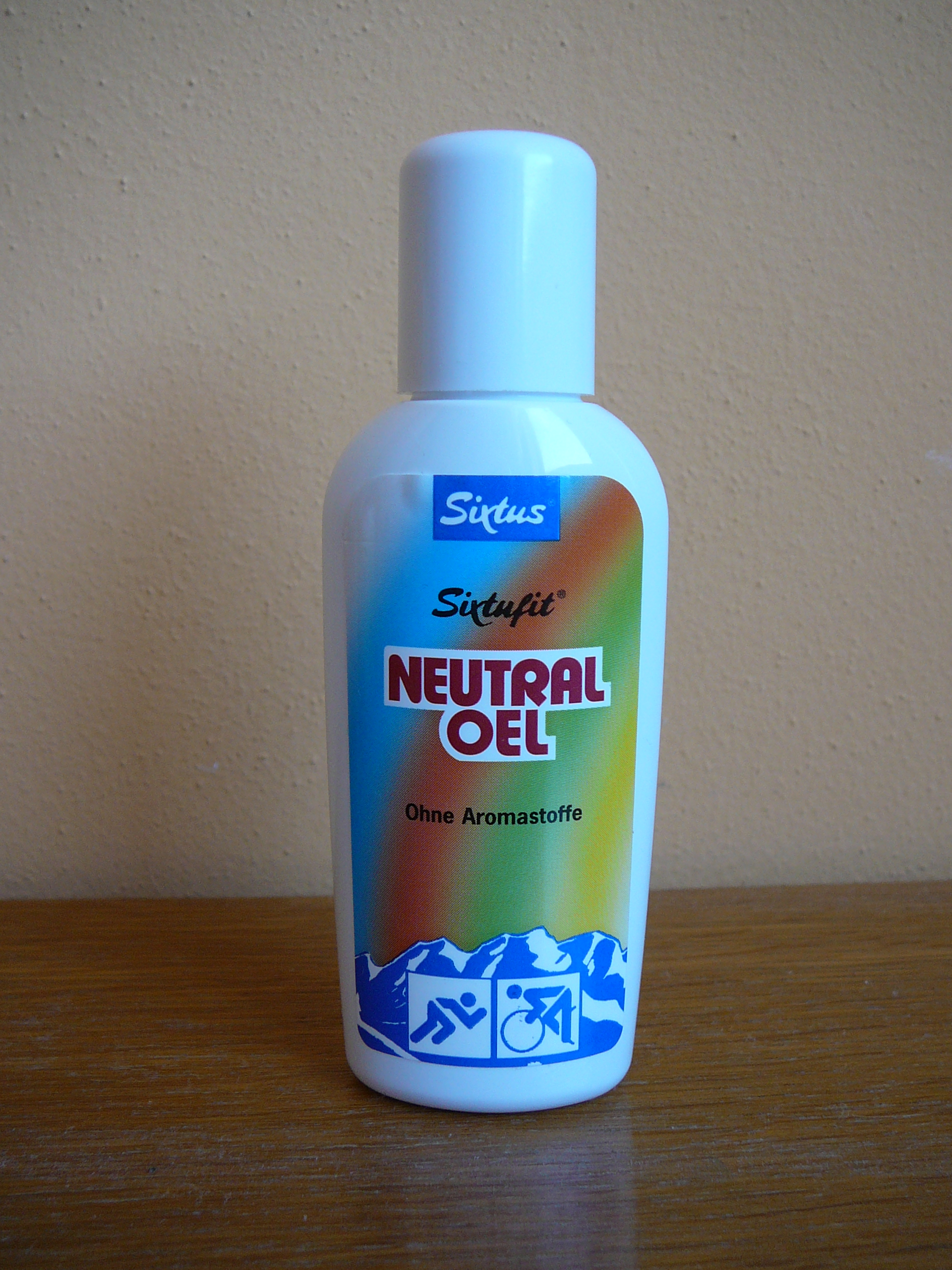 Massage oil-neutral